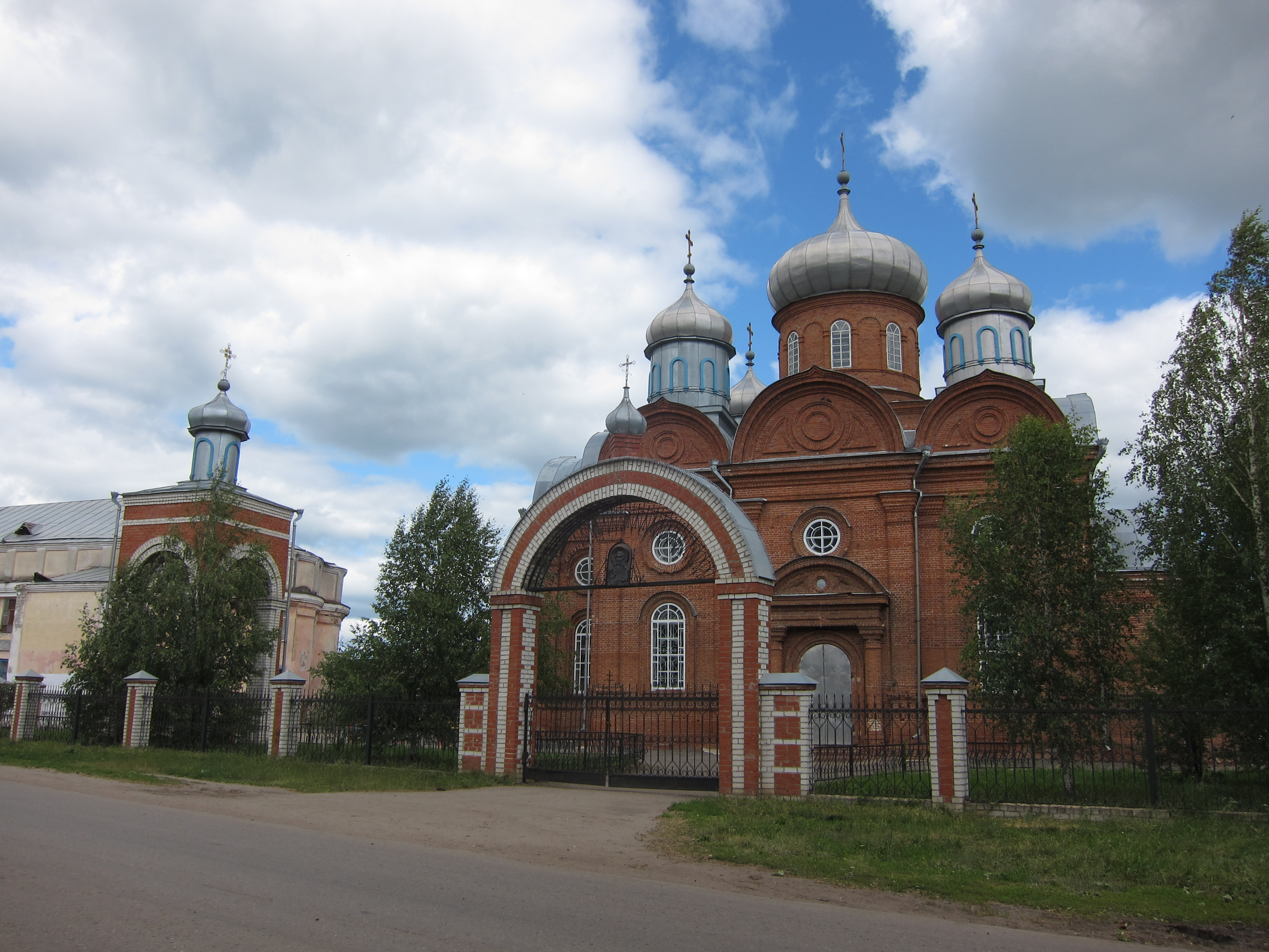 Church in village Vodovatovo, Nizhny Novgorod Oblast.